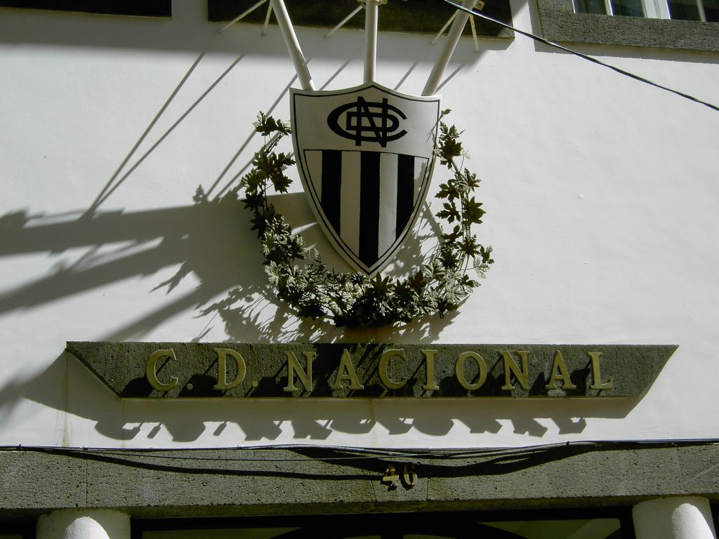 Coat of arms of the Portuguese Liga team C.D. Nacional at the team´s office in Funchal, Portugal.